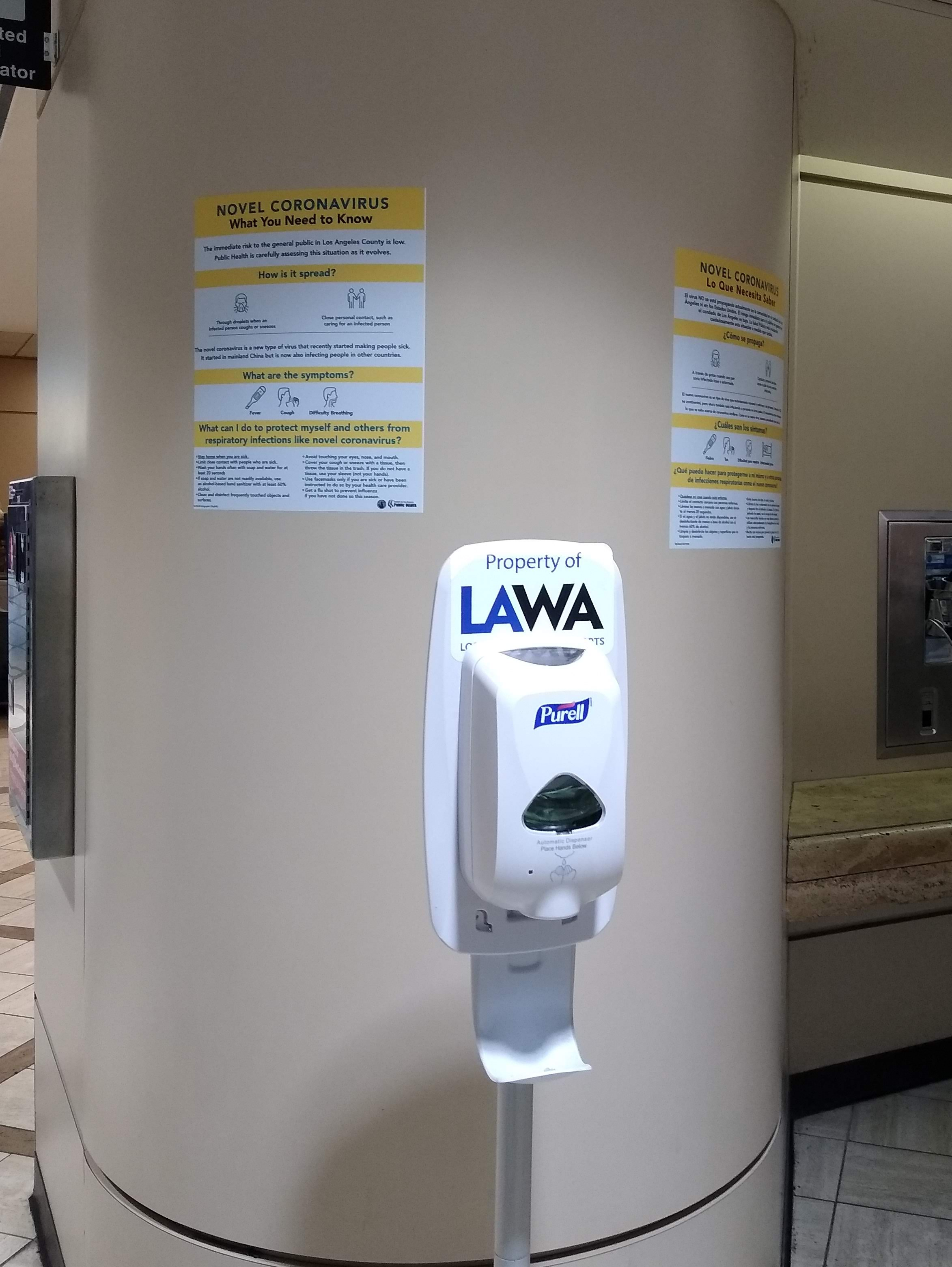 Hand sanitizer and signs about novel coronavirus (COVID-19) at Los Angeles International Airport.